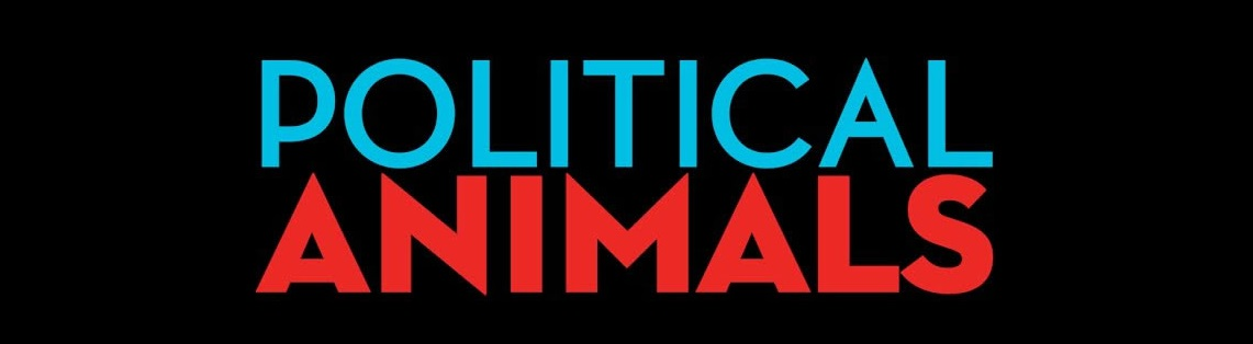 Political Animals.